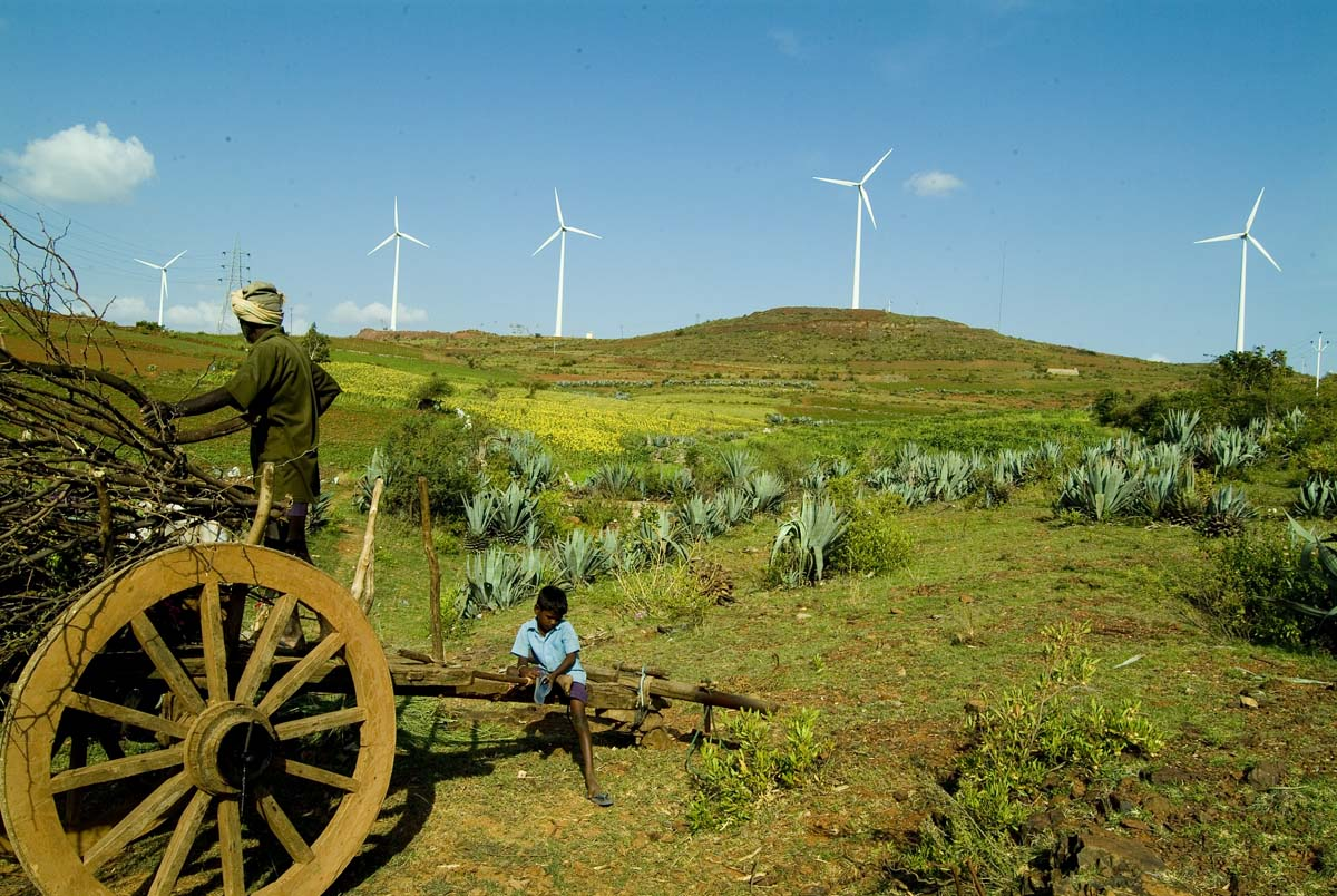 Field and wind turbines in India. Credits Courtesy of Vestas